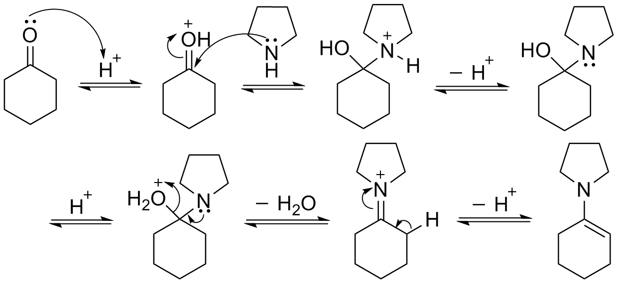 Enamine synthesis mechanism